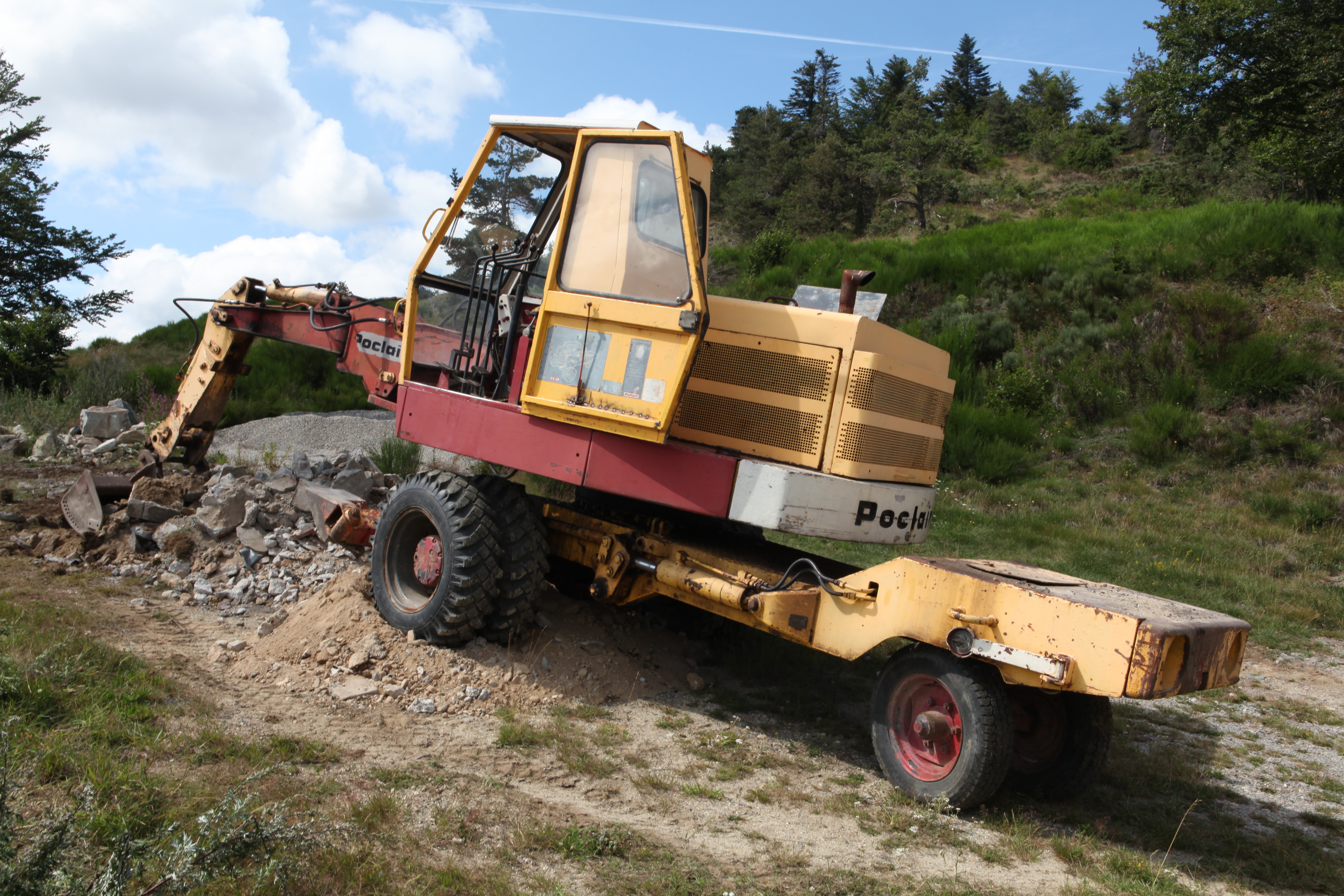 Poclain FY 30